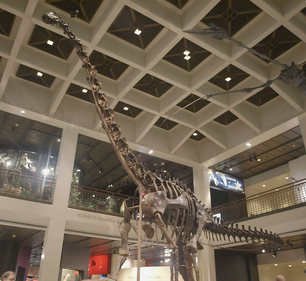 Diplodocus Jurassic Period 140,000,000 years old Diplodocus means double-beam. The name refers to the double row of spines on the vertebrae of the neck and back. Large muscles were attached to the spines to provide strength for the huge neck. The animal was 78ft long, 12 ft high at the hips, and probably weighed 10-15 tons. Wikipedia Loves Art at the Houston Museum of Natural Science This photo of item # [1] at the Houston Museum of Natural Science was contributed under the team name "Kamraman" as part of the Wikipedia Loves Art project in February 2009. Houston Museum of Natural Science The original photograph on Flickr was taken by donvega—please add a comment to the original Flickr page whenever a use has been made on Wikipedia or another project. Project galleries on Flickr: this institution, this team